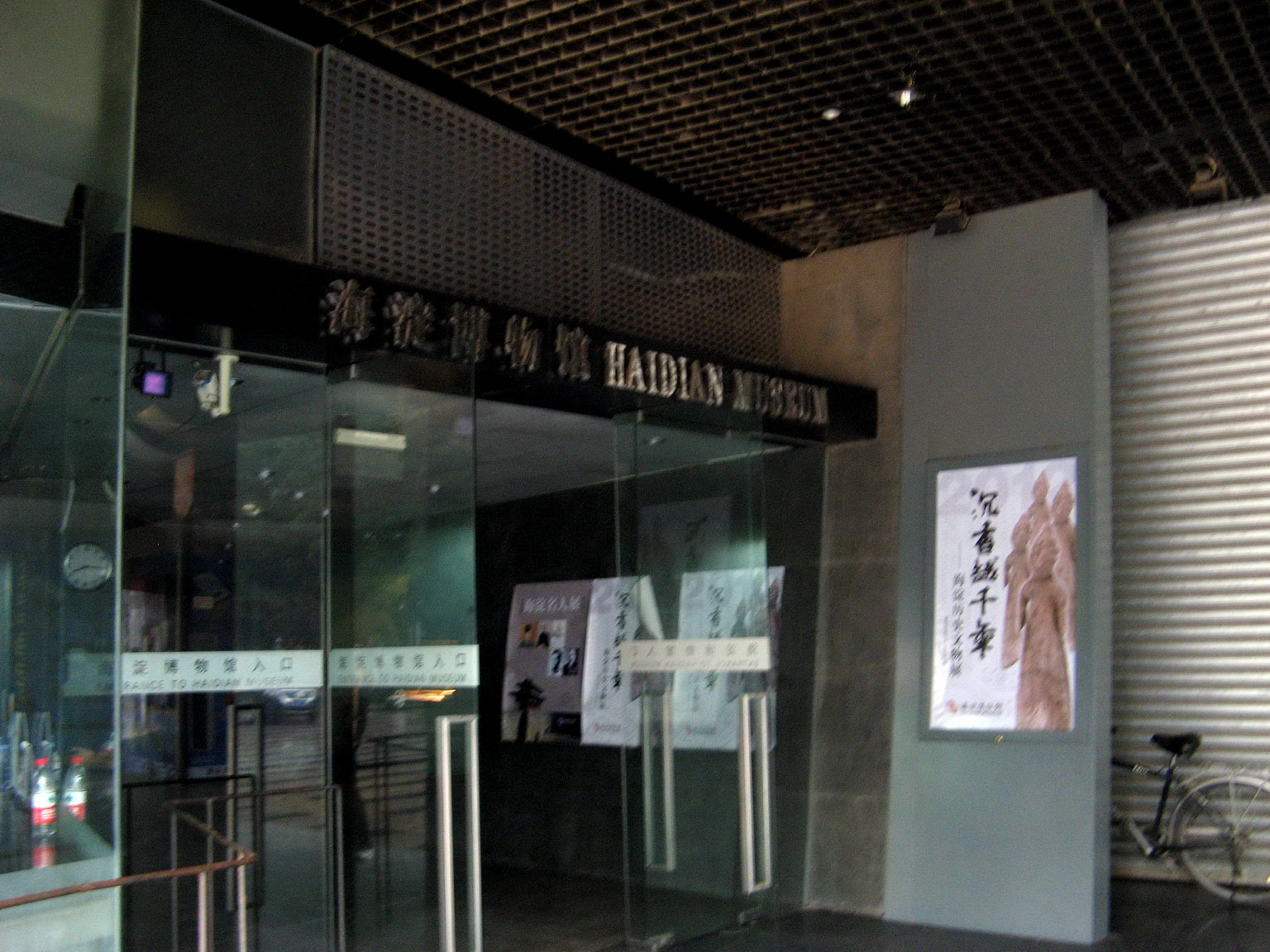 Haidian Museum, Haidian District, Beijing, China